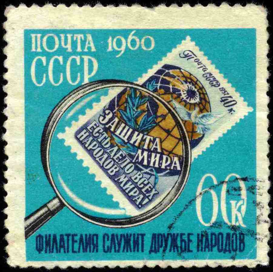 Soviet Union stamp, Collector's Day, Stamp CPA No. 2051 (A dove of peace) under a magnifying glass, inscription: Philately serves the friendship of peoples; 1960, 60 kop., used, CPA No. 2424.